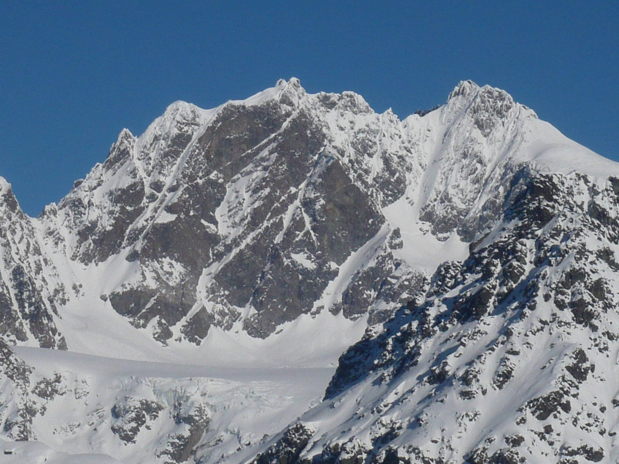 Piz Scescen and Piz Bernina from south